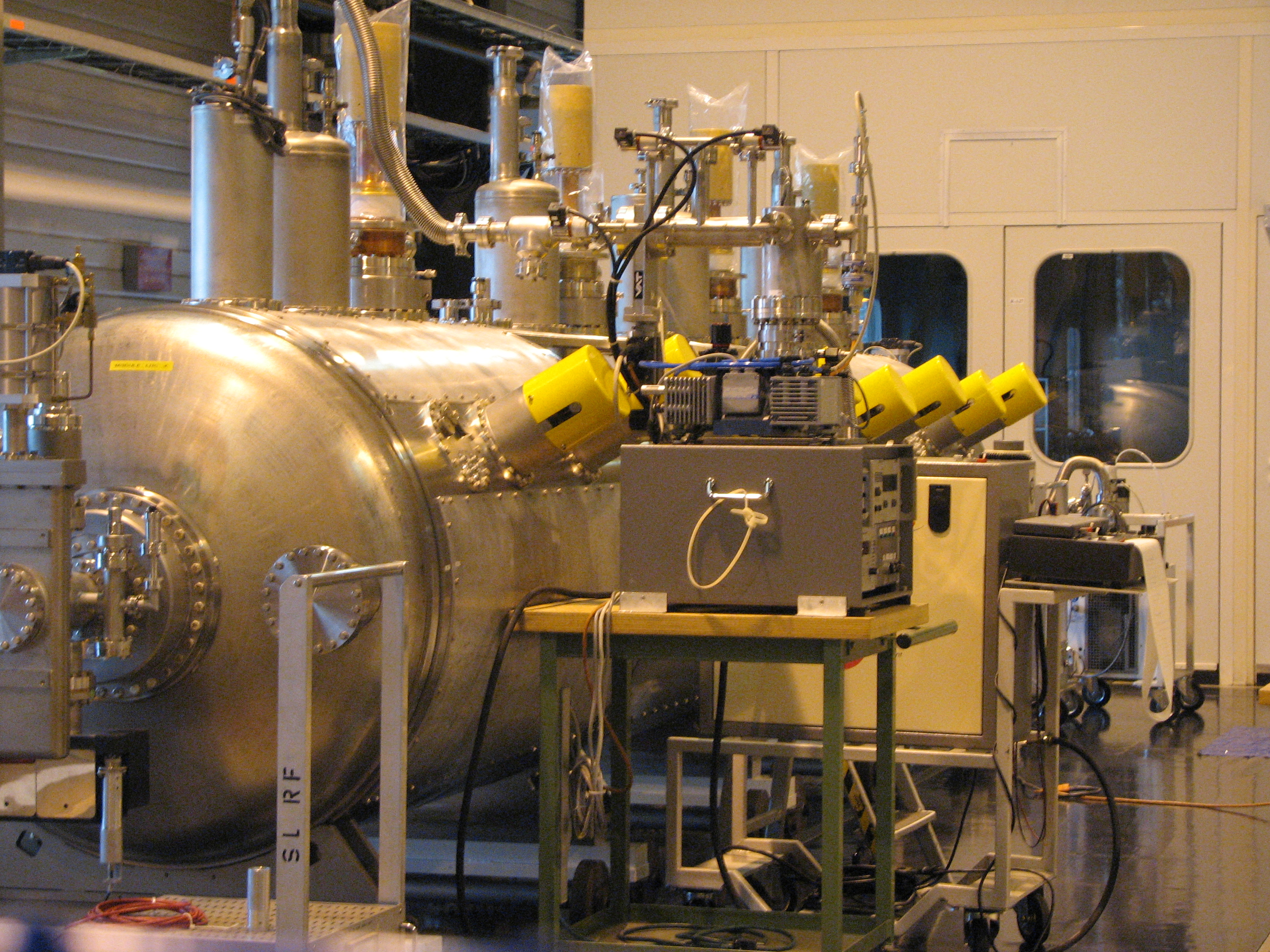 One of the RadioFrequency accelerating cavities of the LHC in the testing Hall